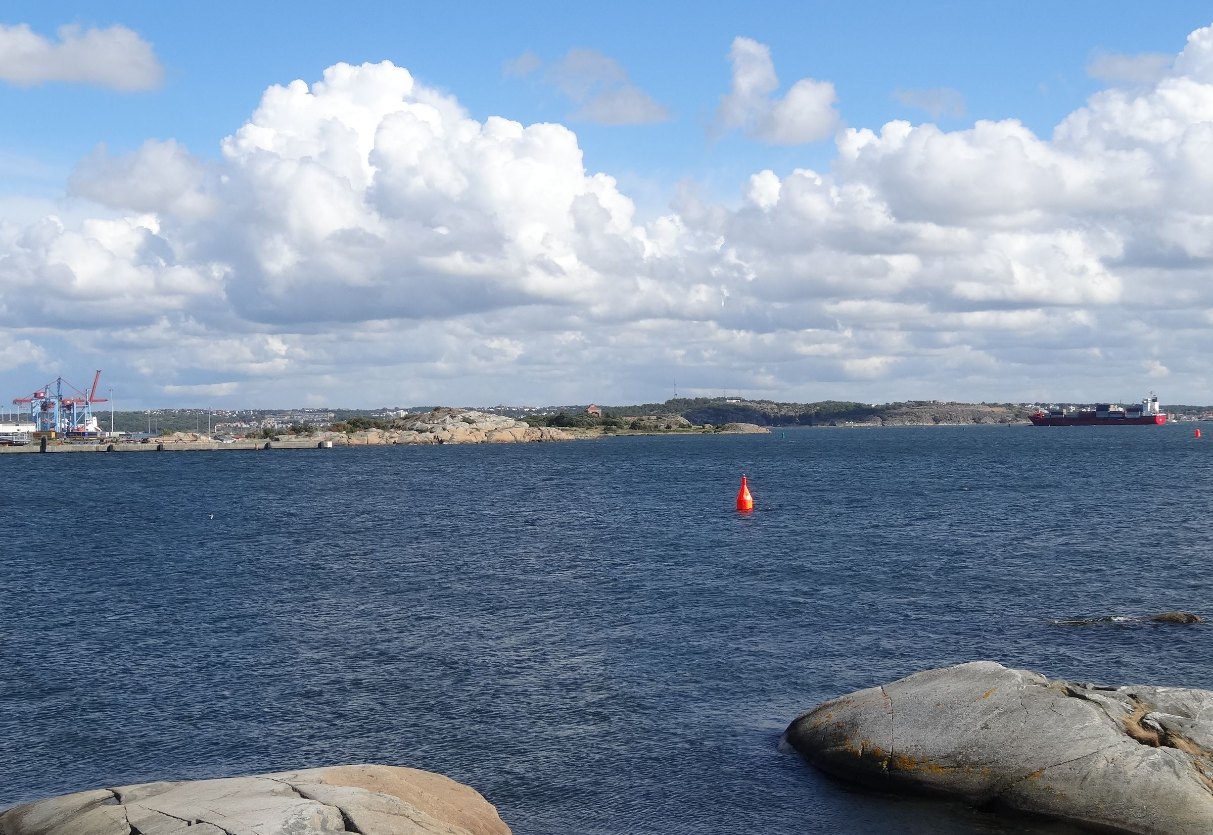 Gothenburg harbour entrance, Sweden. View from the lighthouse Musskären, Arendal towards southeast.